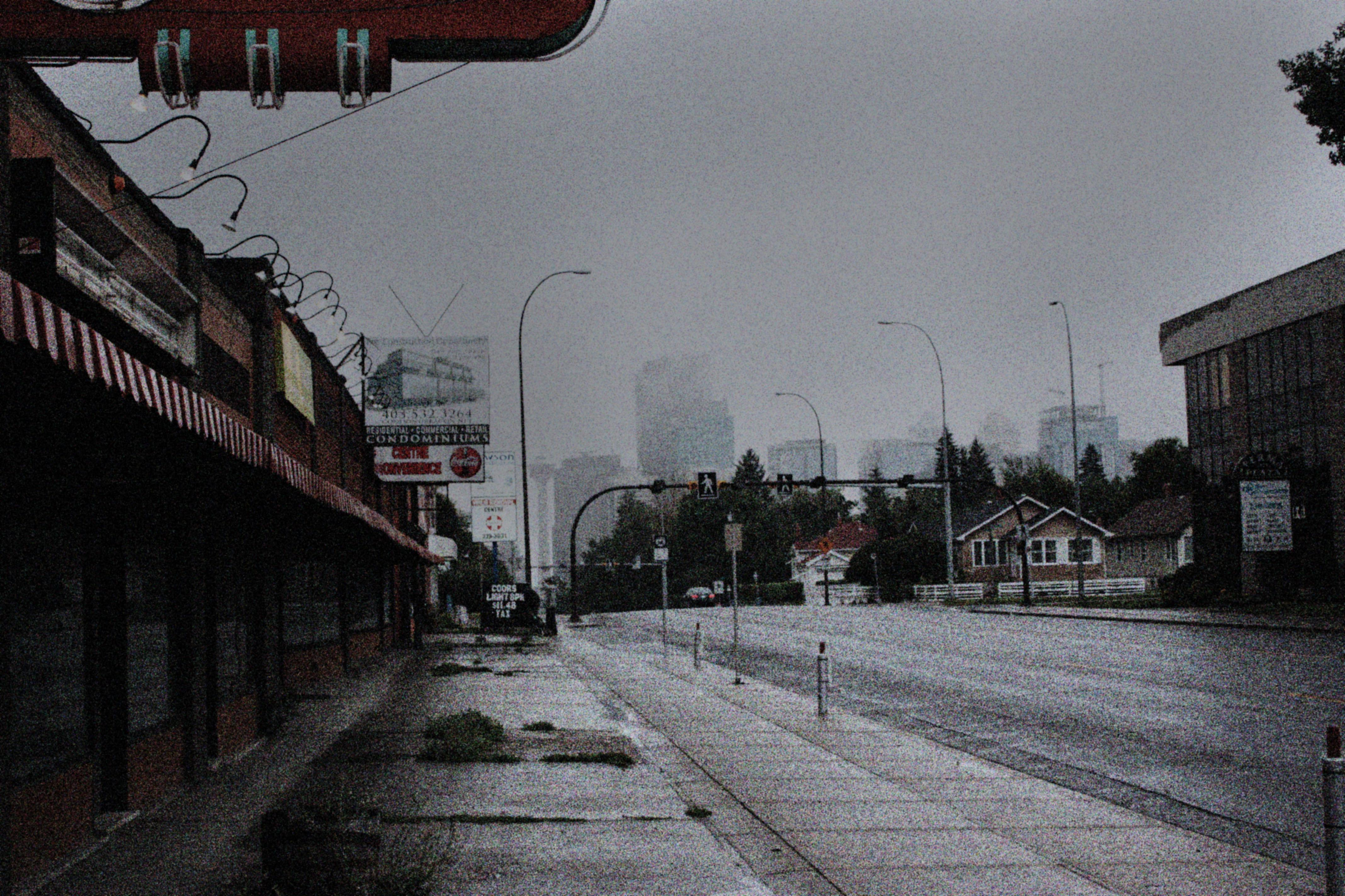 Shot of a rainy day on Centre Street, Calgary AB.